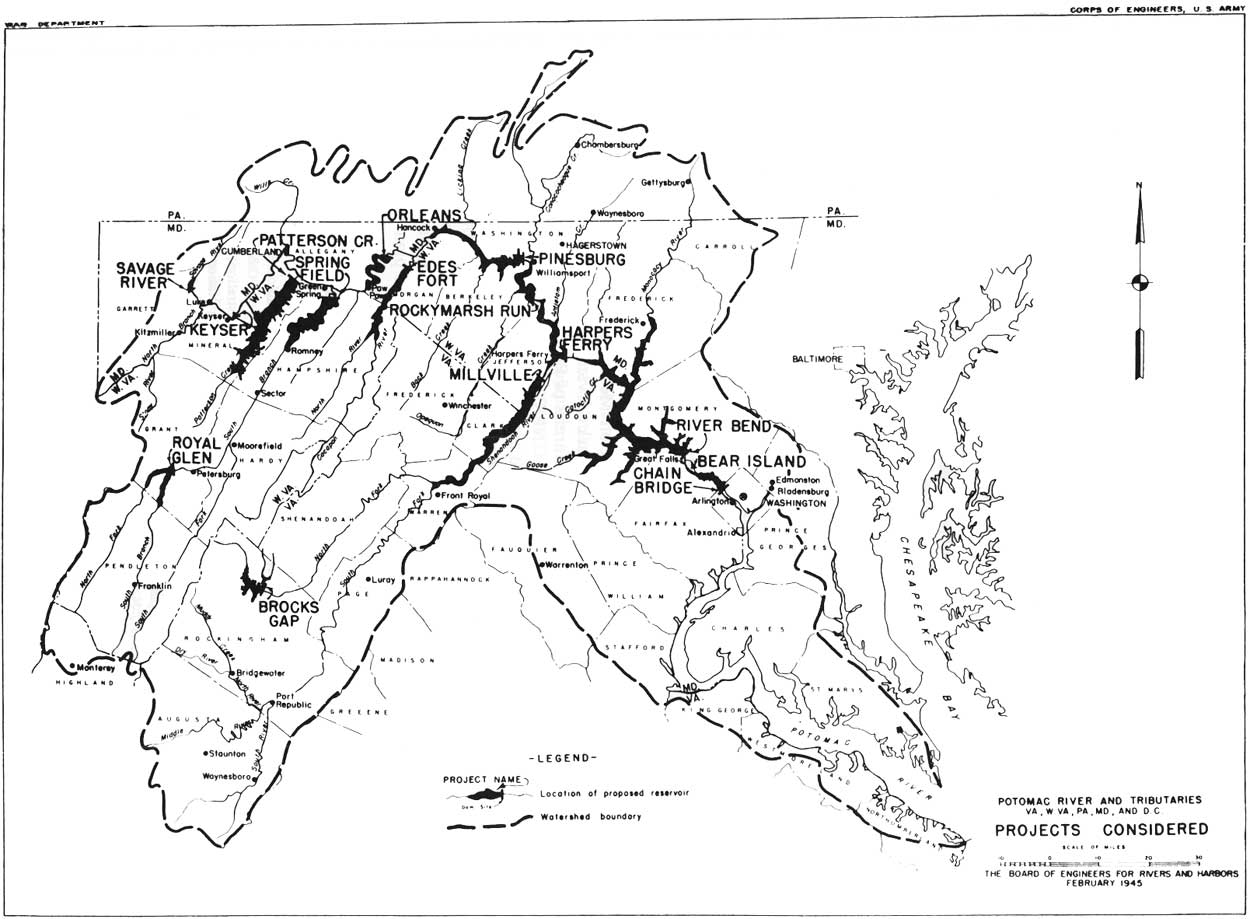 Map of proposed dams in the Potomac River watershed as of February, 1945